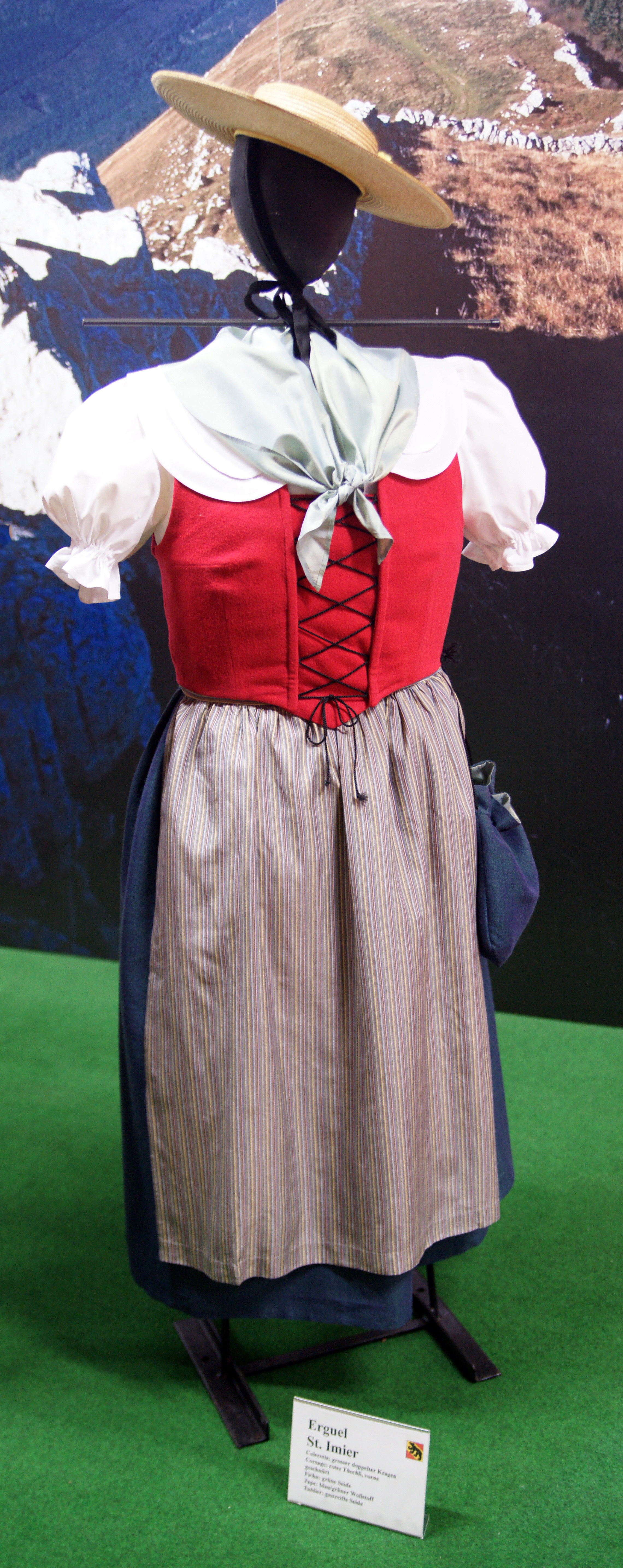 Traditional costume of Erguel / St. Imier, Canton of Bern, Switzerland.